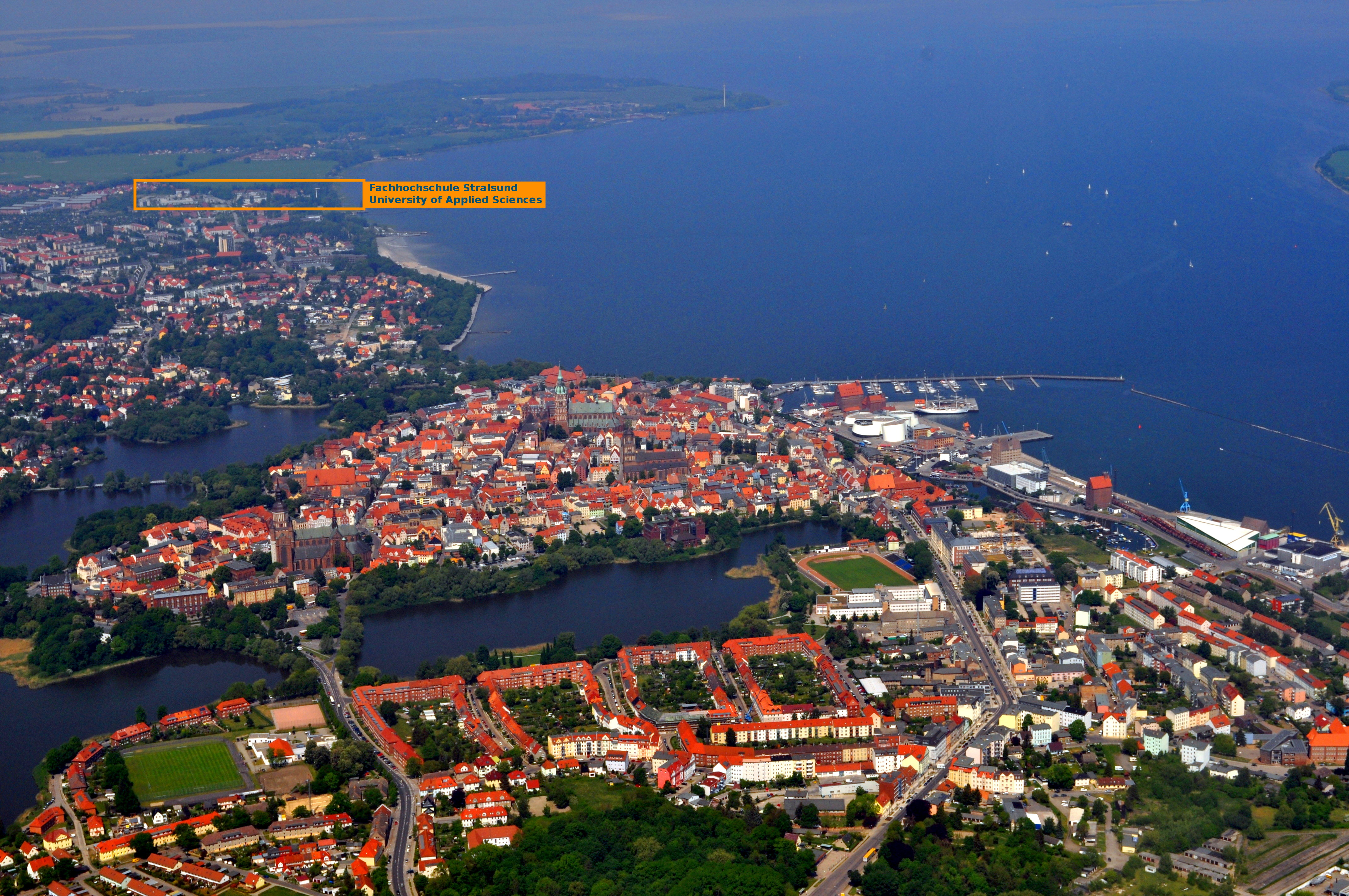 Aerial view of Stralsund with the FH Stralsund (University of Applied Sciences) highlighted. The city is surrounded by lagoons and the Strelasund, a sound of the Baltic Sea.